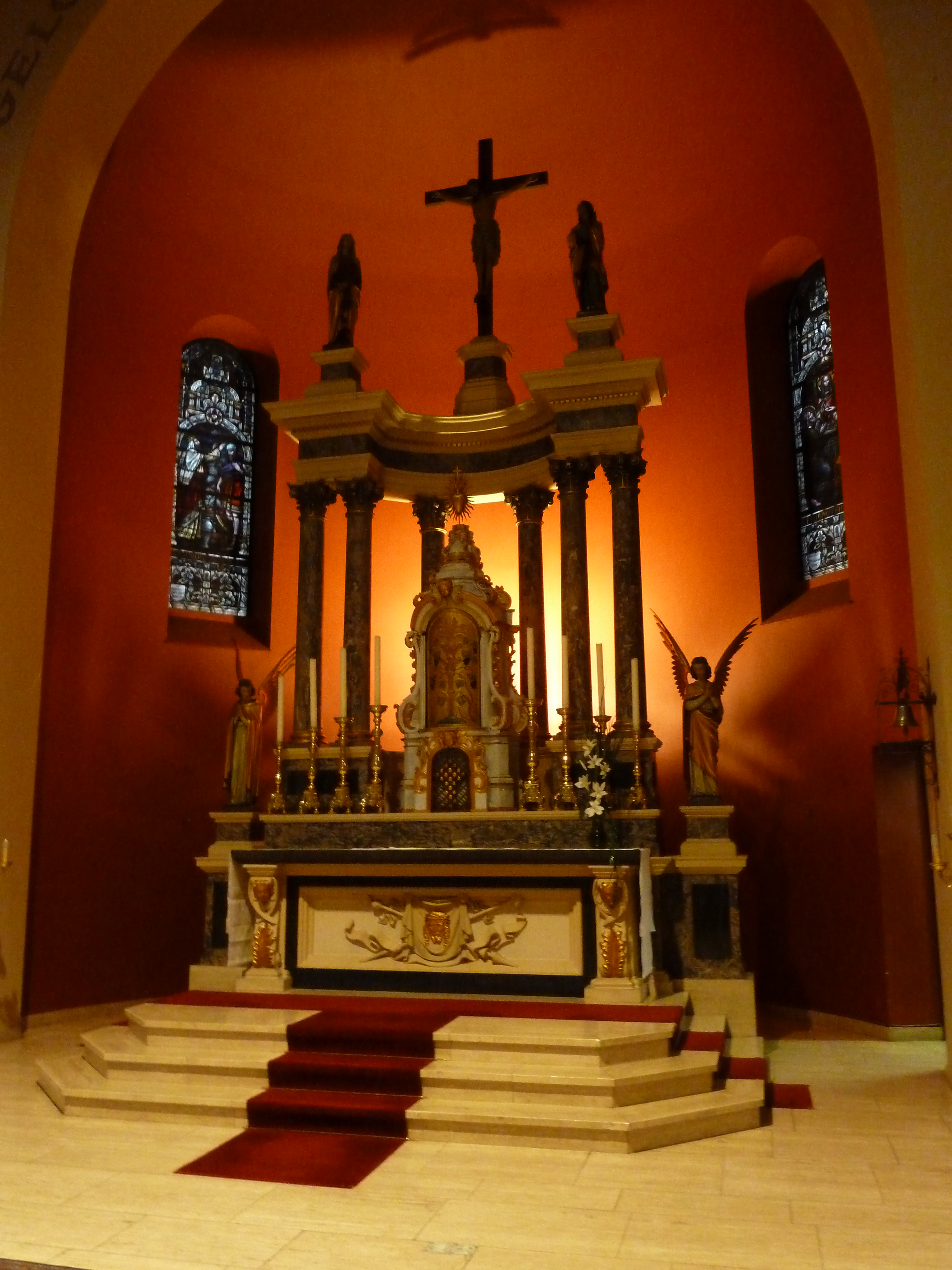 Church of Simpelveld, Limburg, the Netherlands